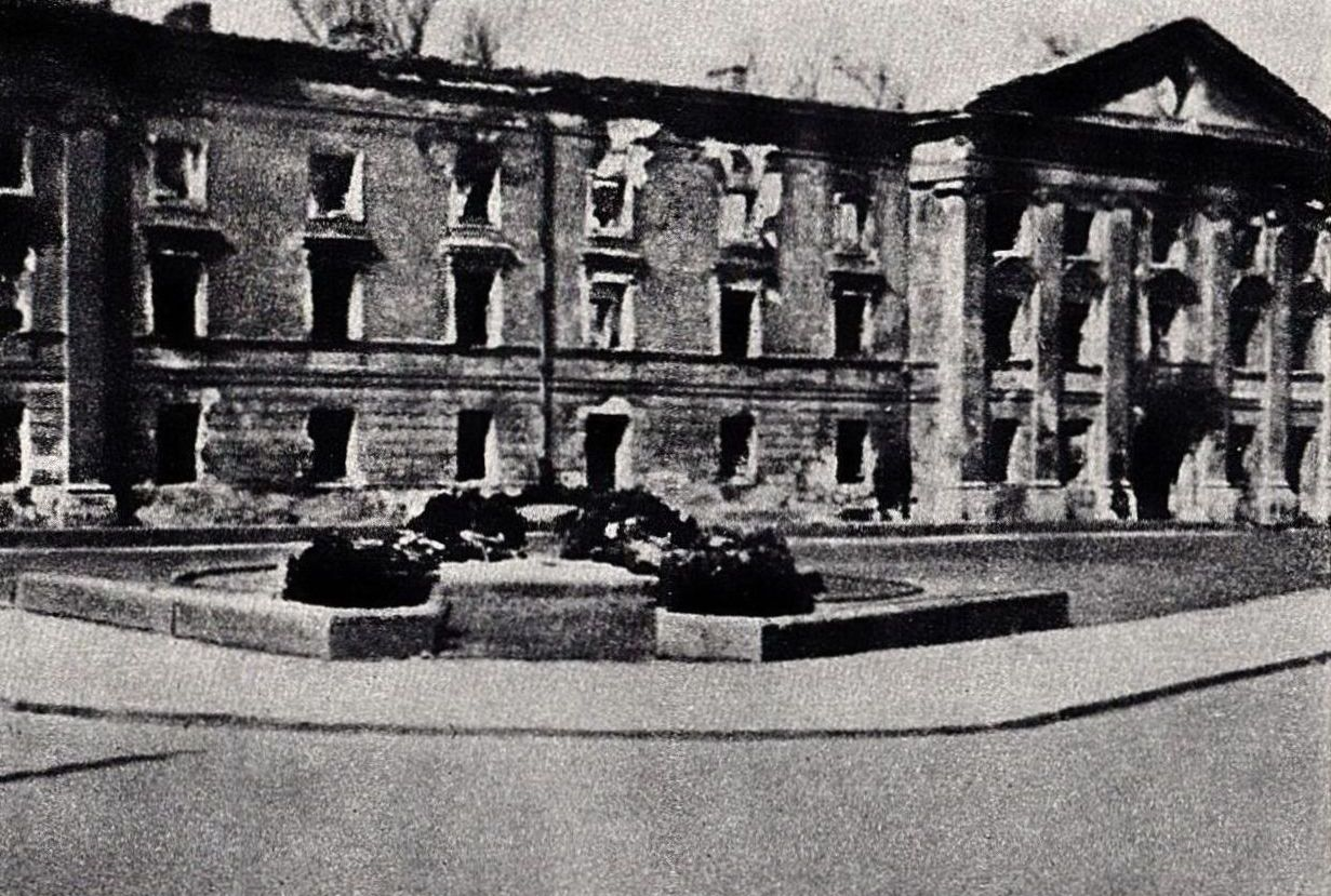 First Warsaw Ghetto Heroes Monument and burned Wołyńskie Barracks